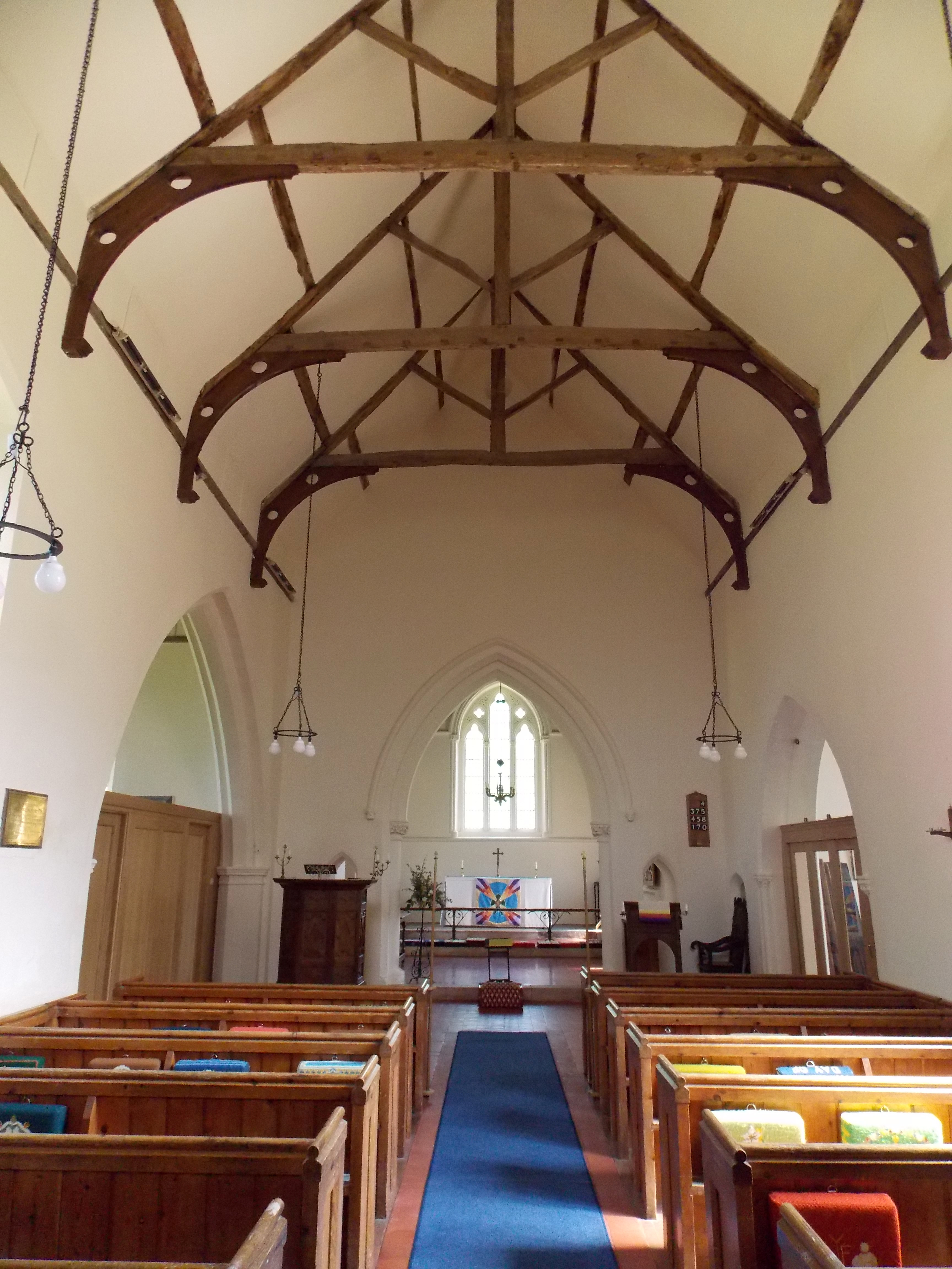 Berden St Nicholas interior nave and chancel from tower arch